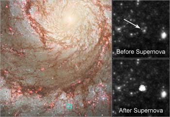 SN 2005cs imaged by Hubble space telescope.